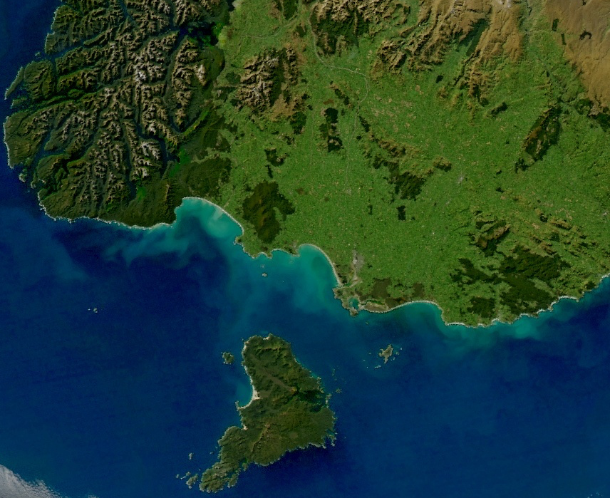 View of most of the Southland Region of New Zealand's South Island, including Stewart Island (separated from the mainland by Foveaux Strait) and the southern half of Fiordland National Park. The Southland Syncline, a geological fold line, can be seen stretching from the southeast coast (at The Catlins) northwestwards through the Hokonui Hills (centre). Source= This file was derived from: Turbid Waters Surround New Zealand.jpg: Author=*Turbid_Waters_Surround_New_Zealand.jpg: Norman Kuring derivative work (a simple crop): Grutness (talk) 13:00, 16 March 2019 (UTC) Permission= This image is in the public domain because it is a screenshot from NASA’s globe software World Wind using a public domain layer, such as Blue Marble, MODIS, Landsat, SRTM, USGS or GLOBE.